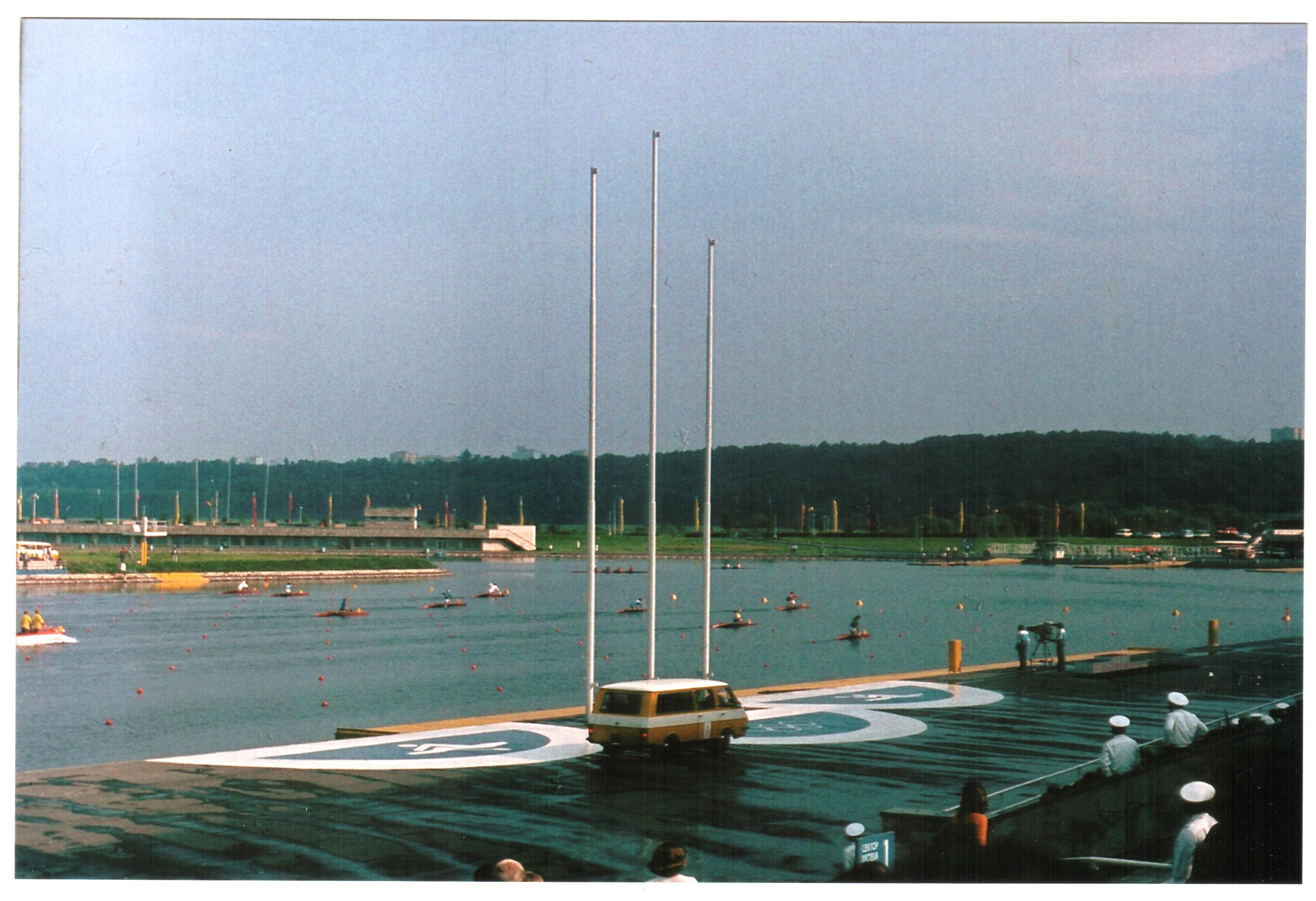 Moscow Olympic Games, 1980. Live in Moscow, in the Summer, 1980. I travelled with a Hungarian group of fans, from Budapest, Hungary. Published under Creative Commons in the Metapolisz DVD line.